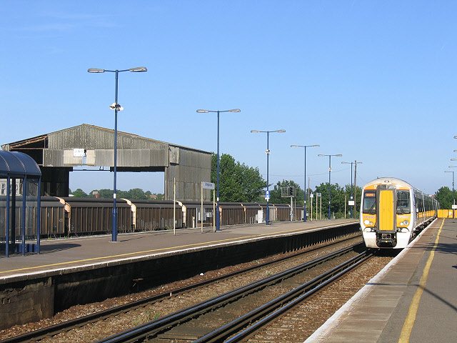 Sittingbourne station - east end The east end of the long (12-coach length) platforms at Sittingbourne. 375803 arrives with the 18.17 limited-stop service to London Victoria via Bromley. At the left are some freight wagons in a siding.